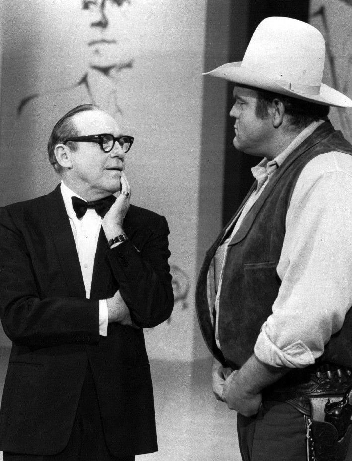 Photo of Jack Benny and Dan Blocker from a Jack Benny television special. Benny and Blocker were doing a skit that involved a spoof of western films.